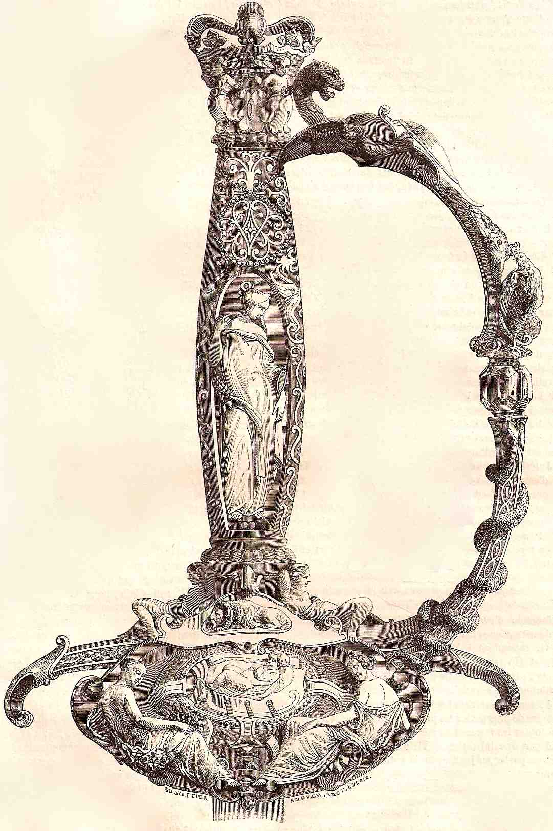 Detail of the Comte de Paris sword offered by the City of Paris, made by Le Page in 1841